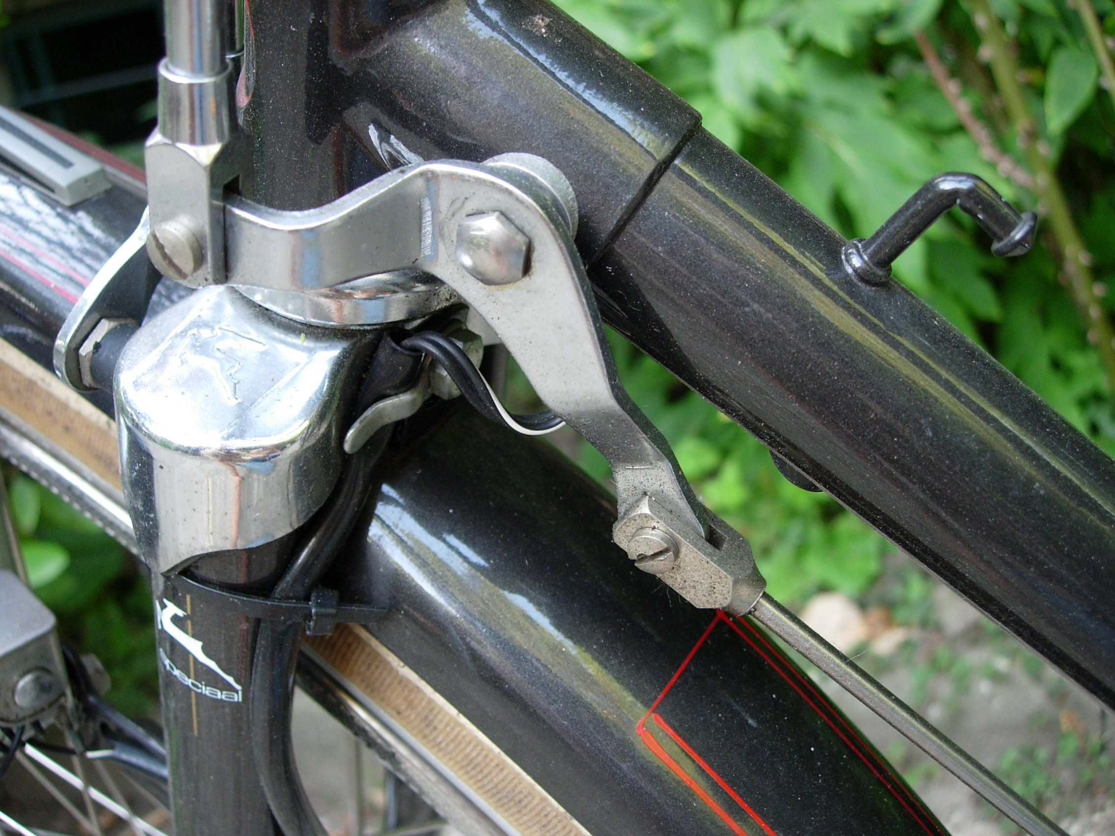 Detail of rod brake mechanism on a Gazelle Speciaal with drum brakes